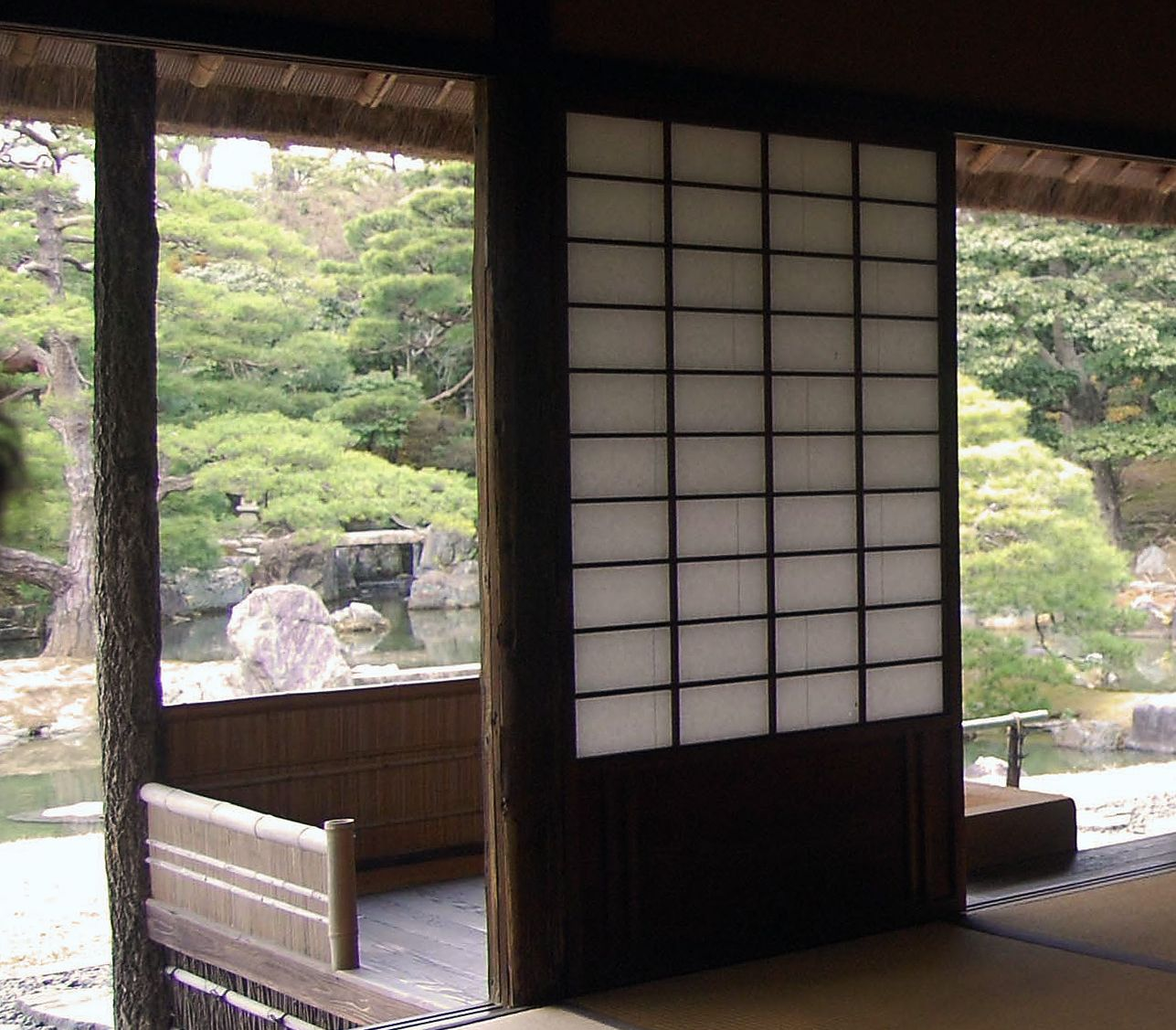 File "Shokin-tei croped" based on Shokin-tei.jpg.